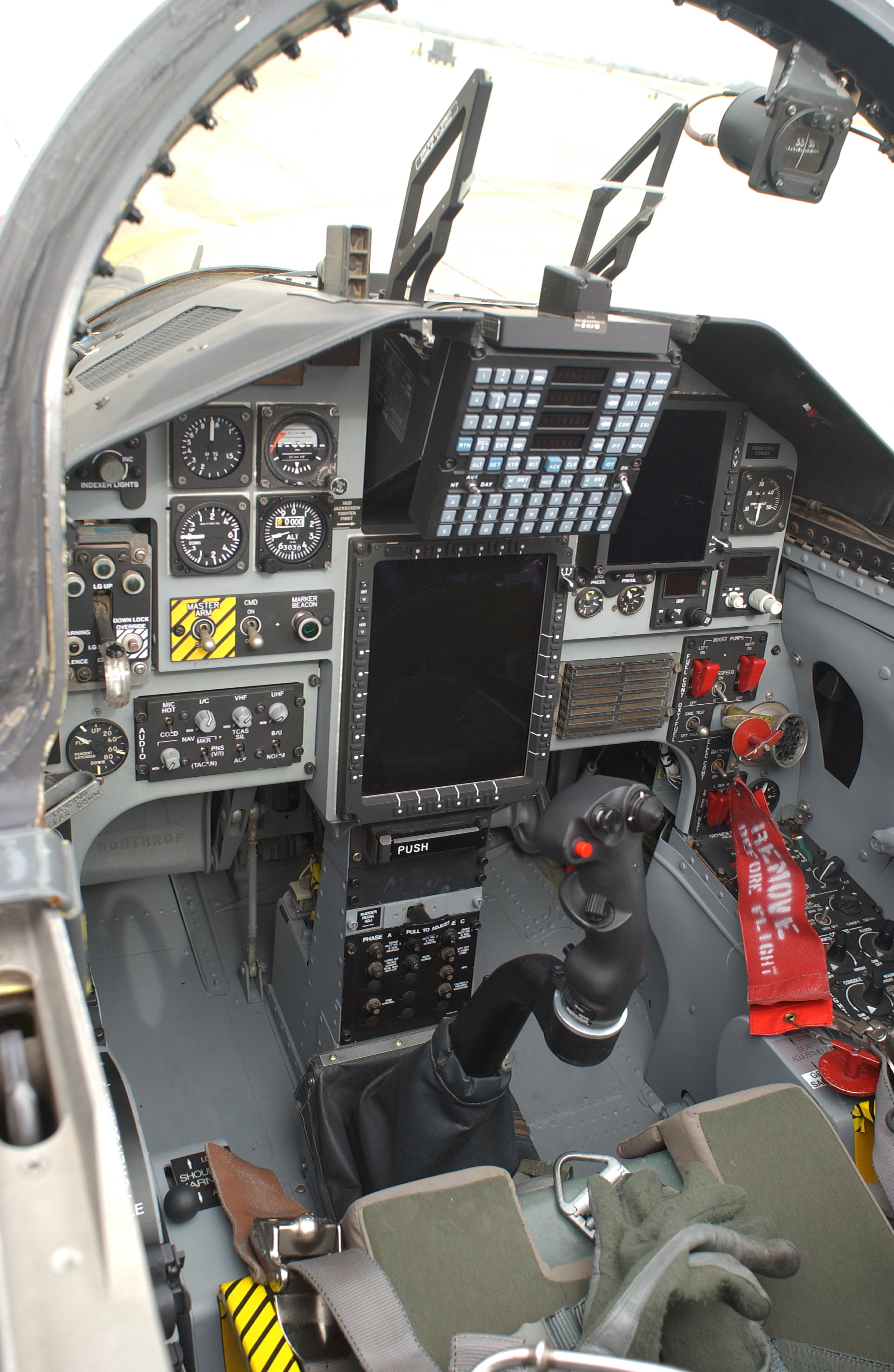 RANDOLPH AIR FORCE BASE, Texas -- The interior of the T-38C Talon trainer features improved avionics and support systems that make it closer in design to fighter aircraft like the F-15 Eagle, F-16 Fighting Falcon and F/A-22 Raptor.